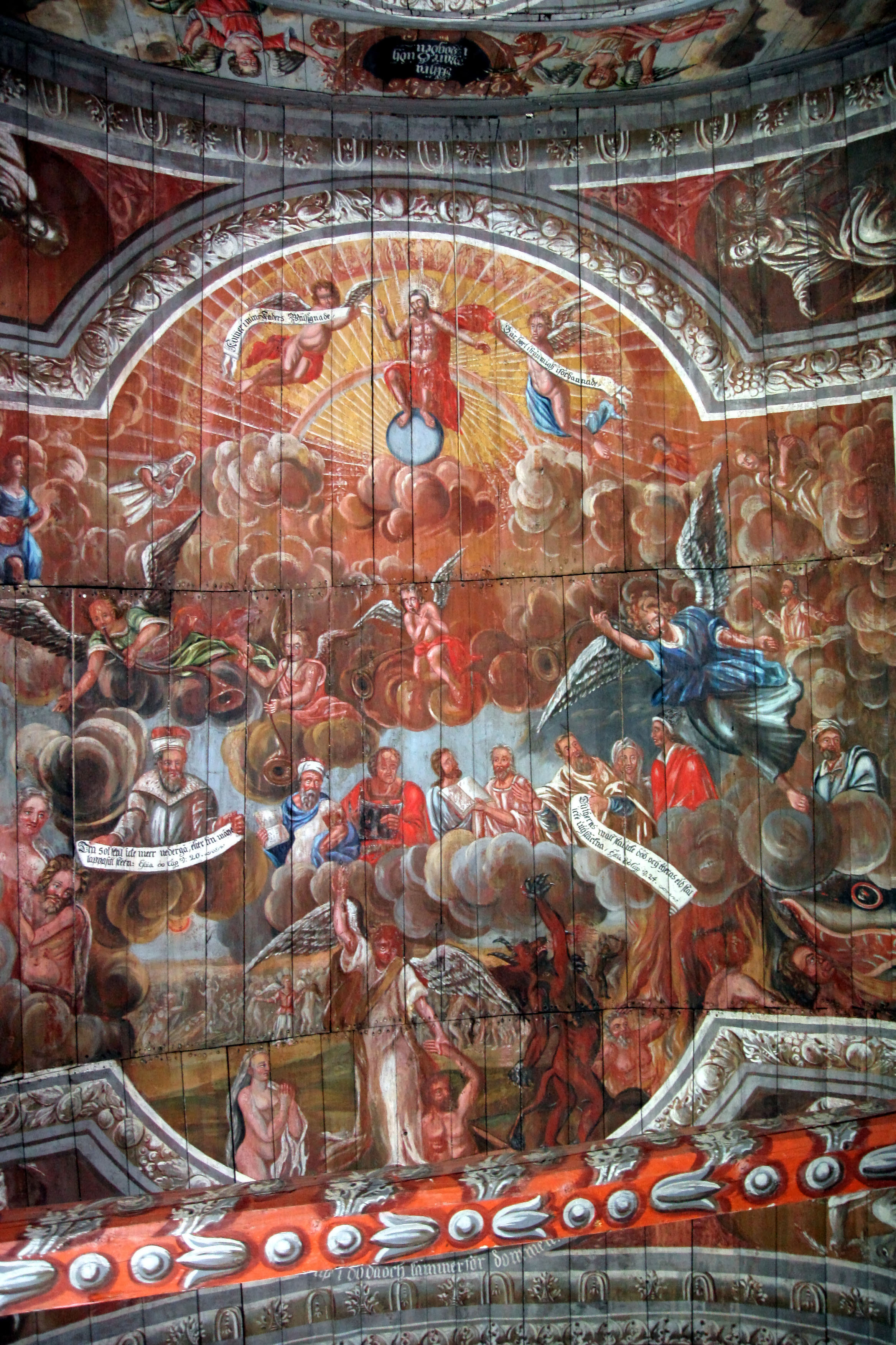 The old romanesque church of Svenneby in Tanum (Bohuslän, Sweden)